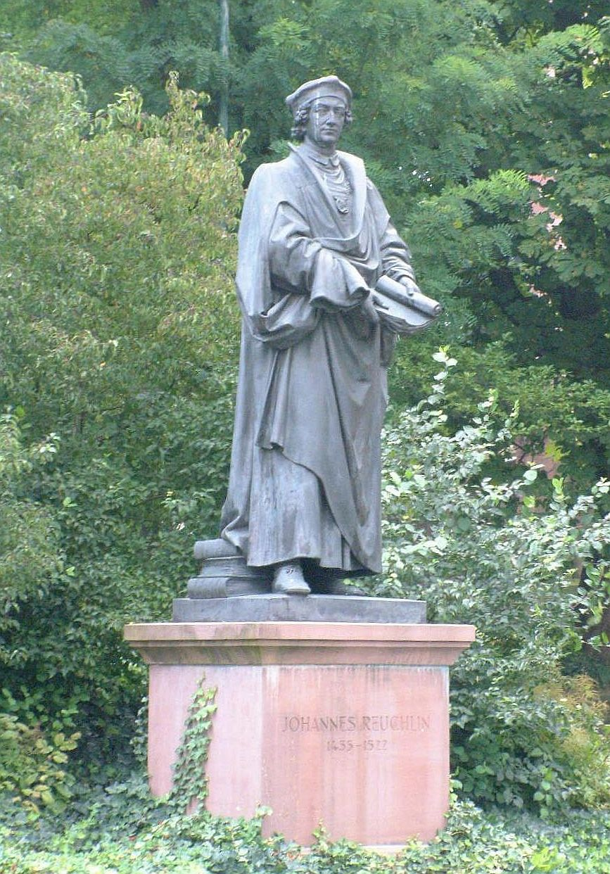 Pforzheim: Statue of Johannes Reuchlin, located next to Schlosskirche St. Michael. Taken by Michael Hild 2002.